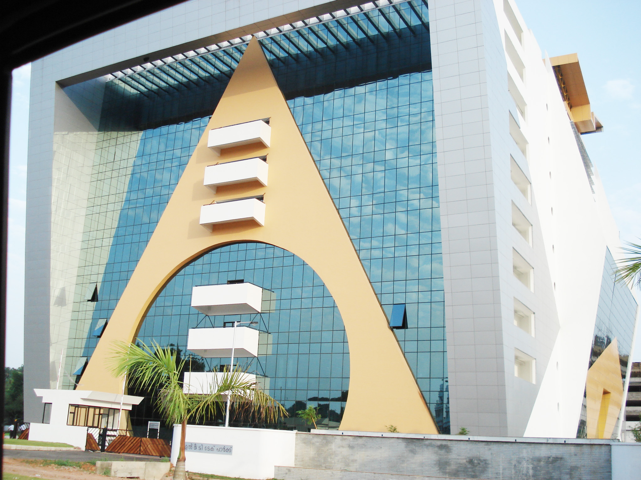 Tejomaya Building at InfoPark, Kochi.